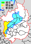 Map of Shiga District in Shiga prefecture.